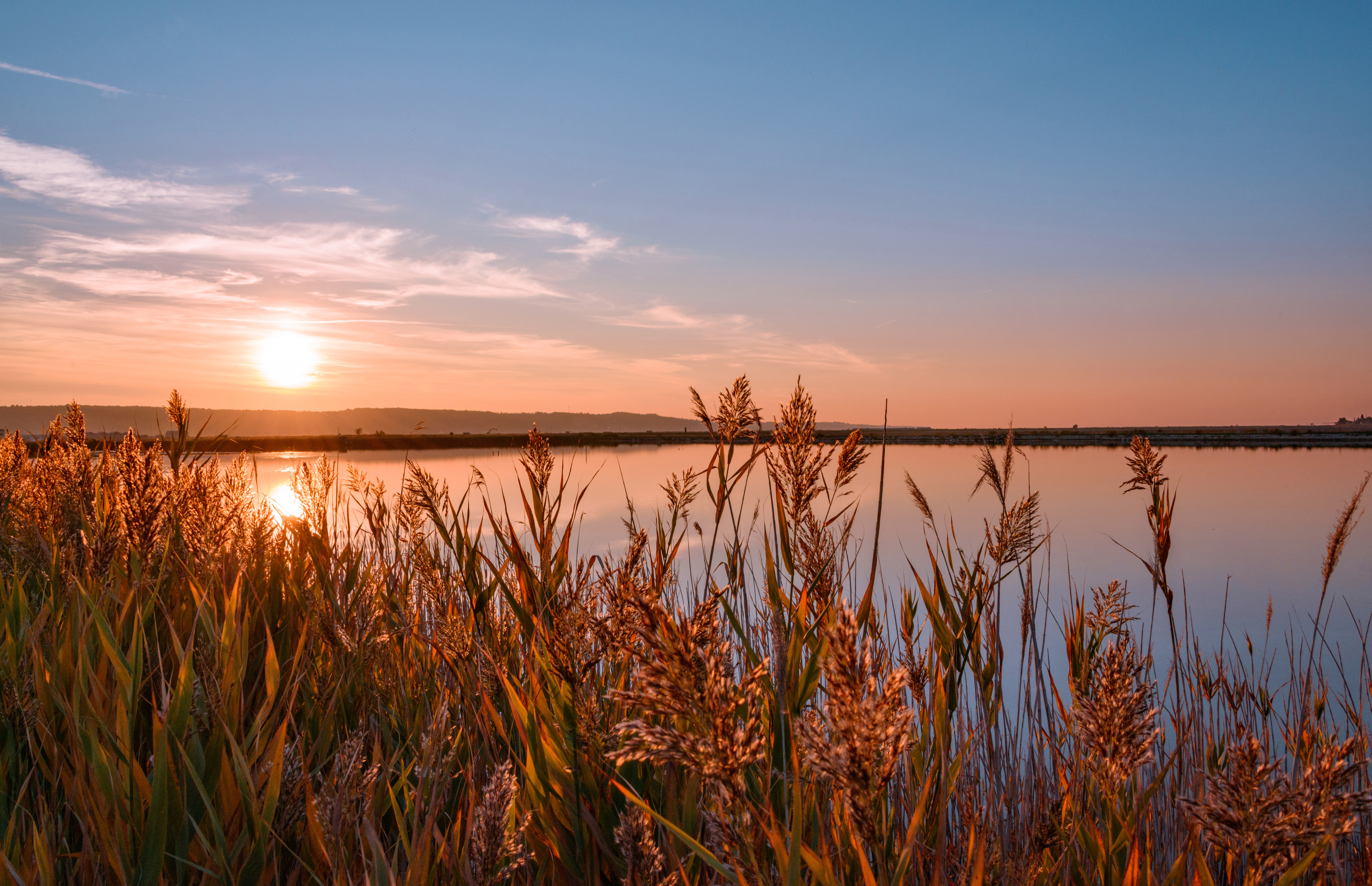 Sunset at the sea in autumn with dried grass in front.